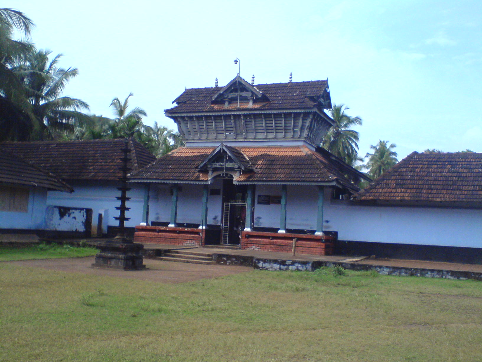 Vettakkorumakan Kshethram